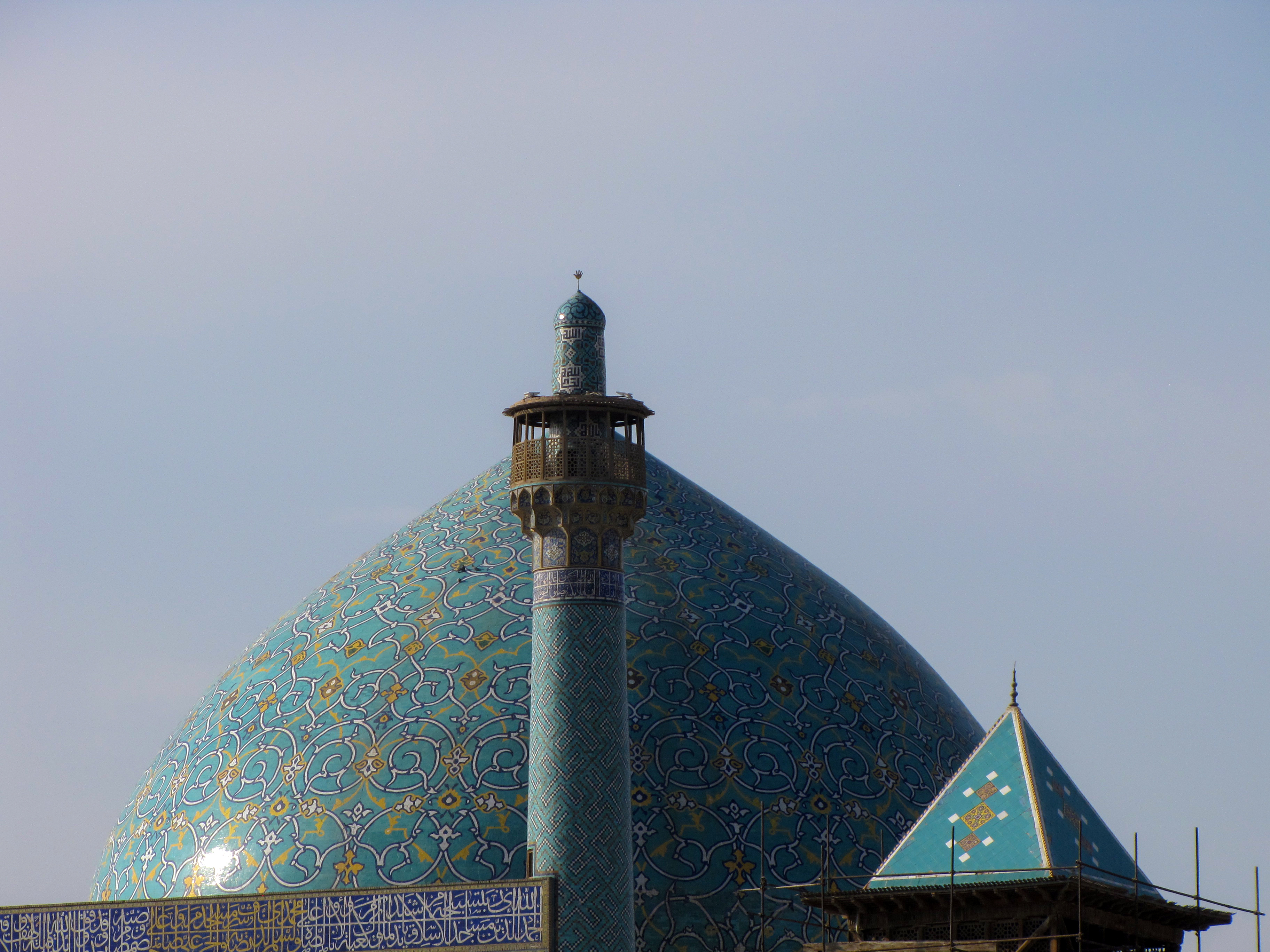 The Shah Mosque also known as Jaame' Abbasi Mosque or Imam Mosque after Iranian revolution, is a mosque in Isfahan, Iran, standing in south side of Naghsh-e Jahan Square.